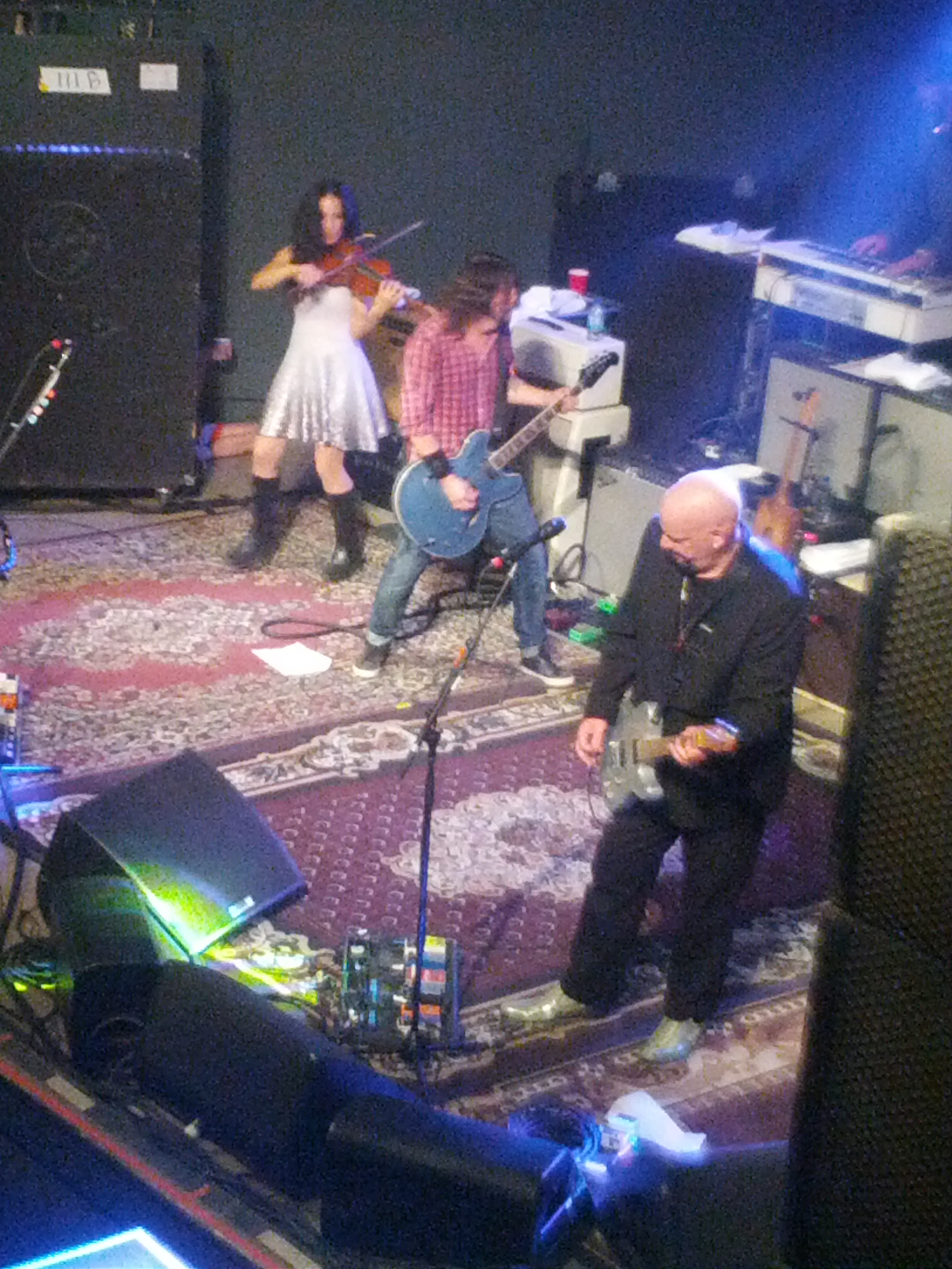 Sound City Players Last Ever Gig